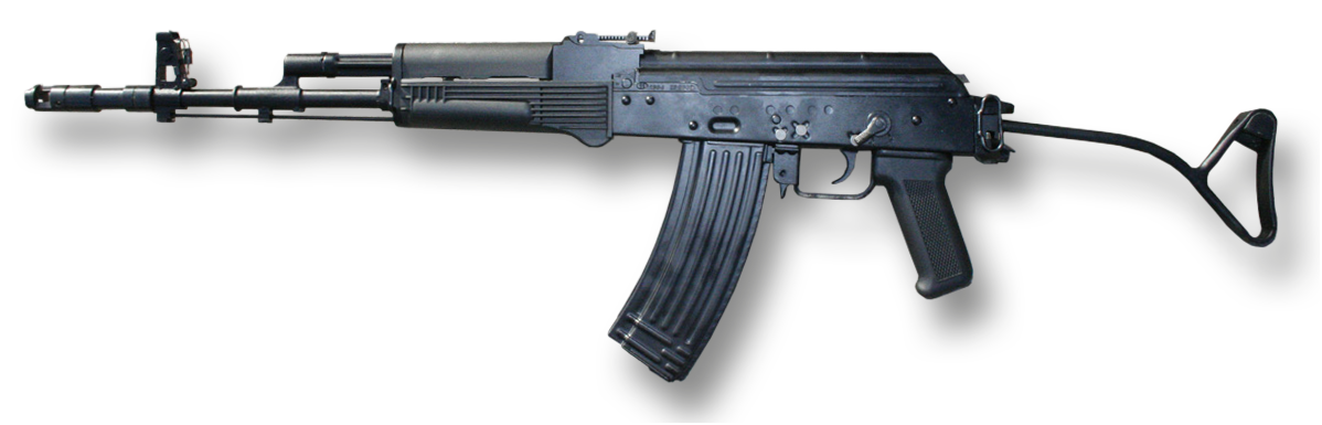 Assault rifle: kbk wz. 1988 Tantal, late version